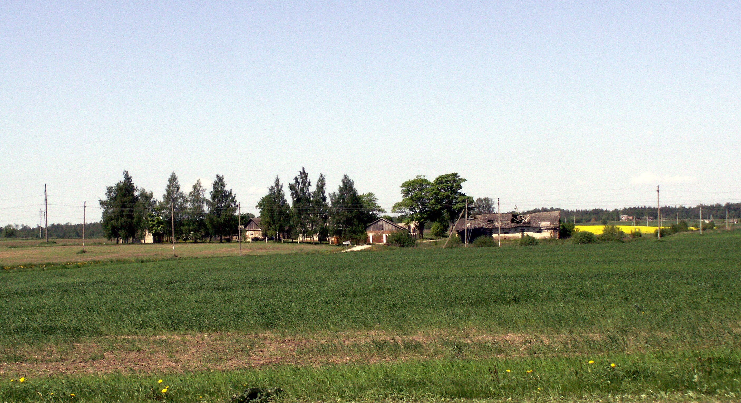 Noreikiai, Šiauliai district, Lithuania